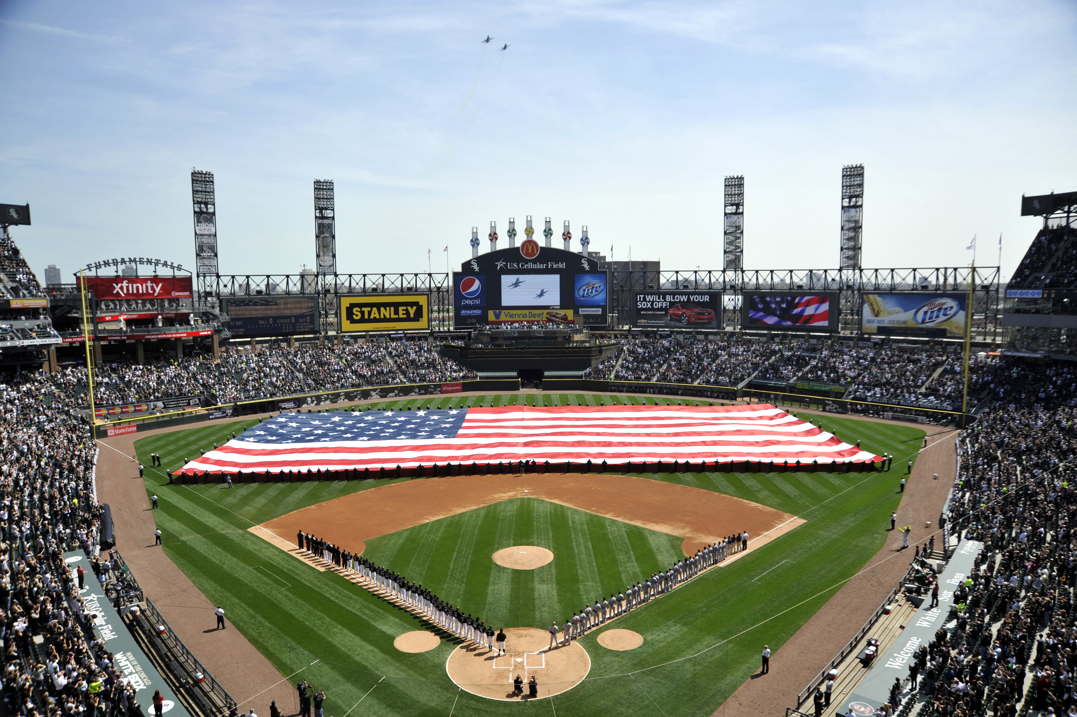 CHICAGO (April 6, 2010) Sailors assigned to various commands at Naval Station Great Lakes unfurl an American flag before the 2010 home opening Chicago White Sox baseball game at U.S. Cellular Field. (U.S. Navy photo by Mass Communication Specialist Thomas Miller/Released)